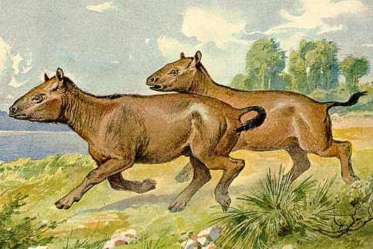 Palaeotherium